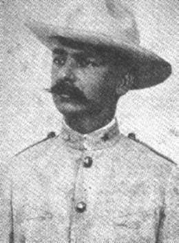 Eugenio_Molinet_Amorós